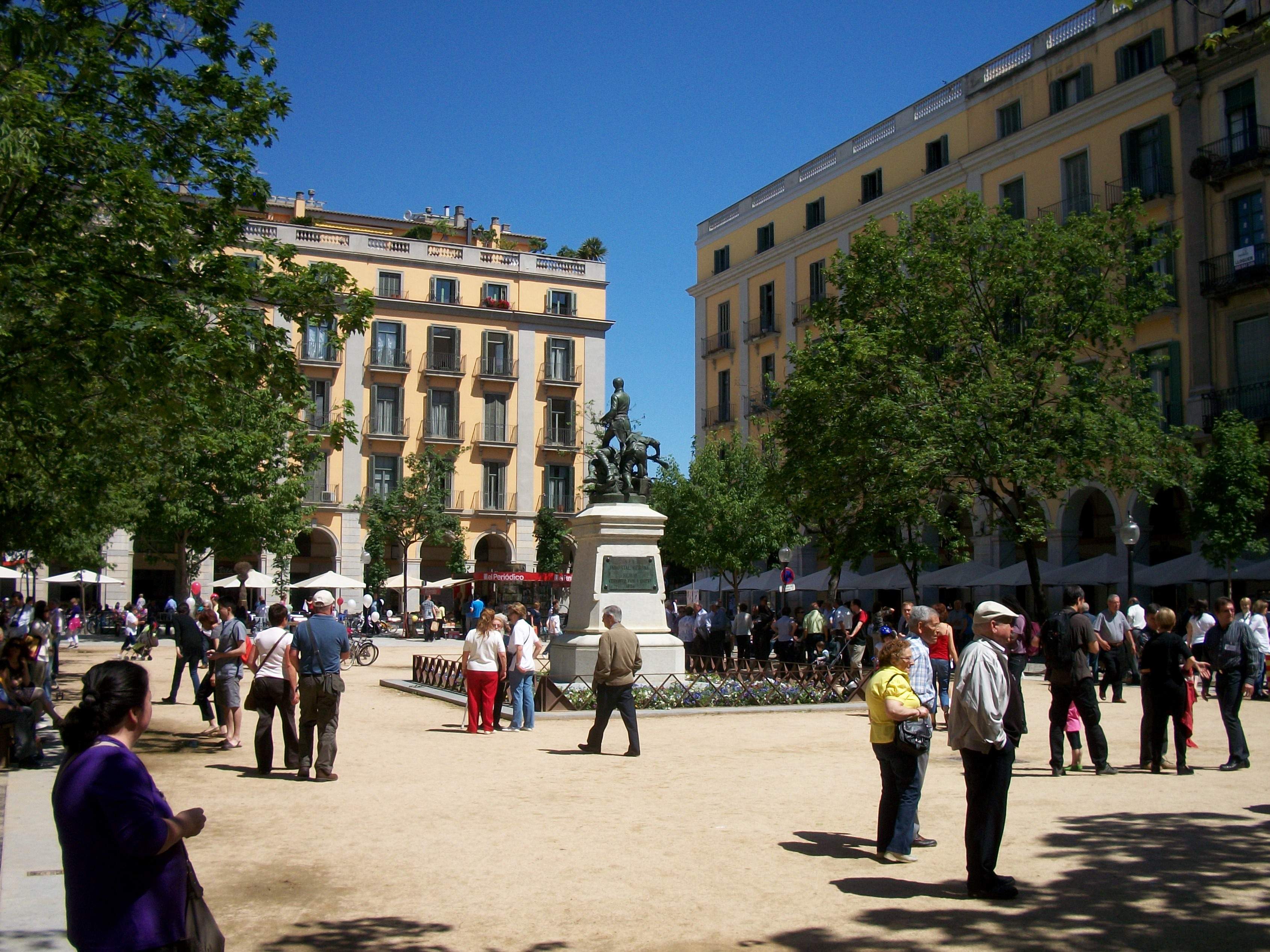 Plaça de Independència, Girona, Catalonia, Spain